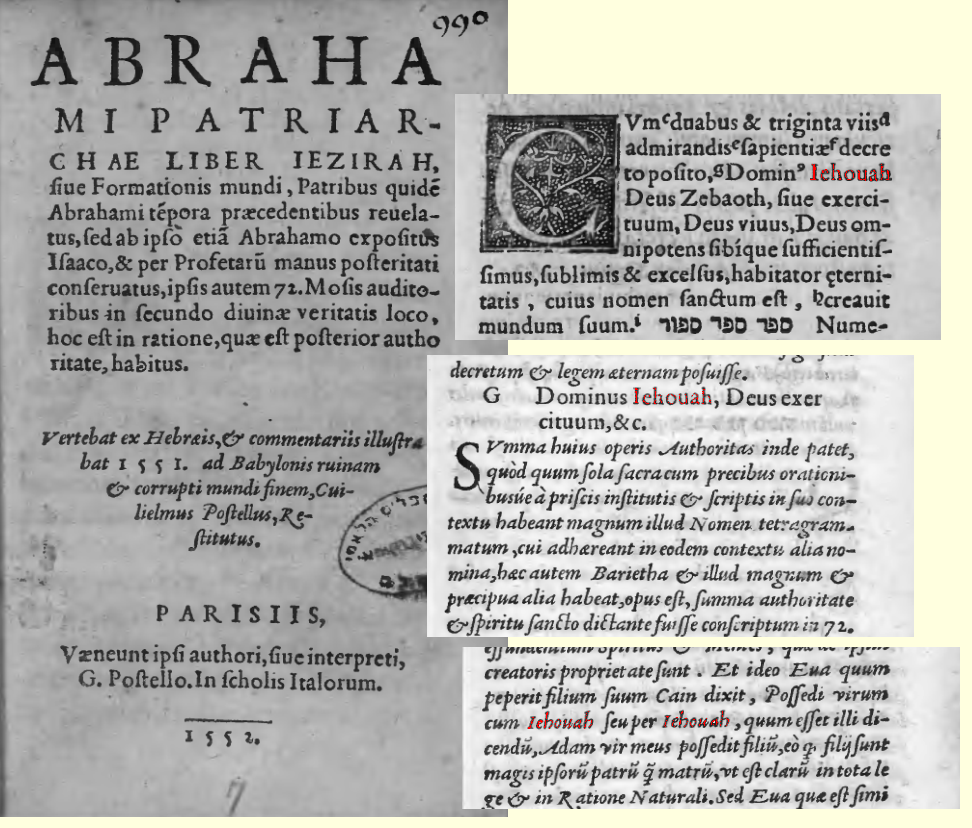 Excerpts from Abrahami Patriarchae Liber Iezirah, sive, Formationis mundi: Patribus quidem Abrahami tempora, Paris. 1552, a Latin translation of Sefer Yetzirah, showing that in the 16th century Iehouah (corresponding to English Jehovah) was considered a correct transliteration of the Tetragrammaton.